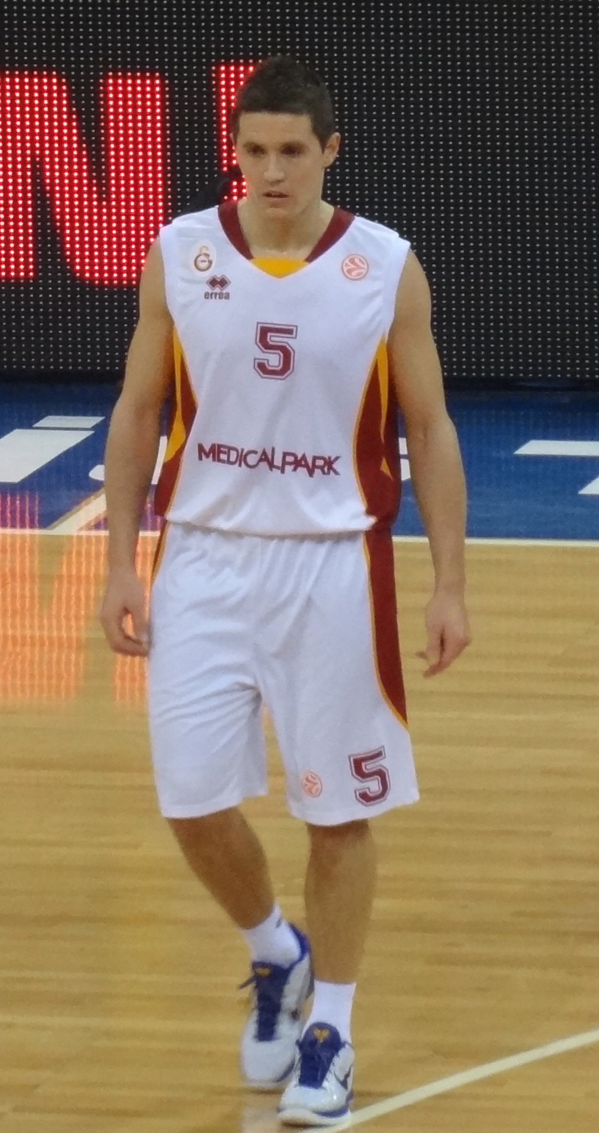 Jaka Lakovic playing against Efes